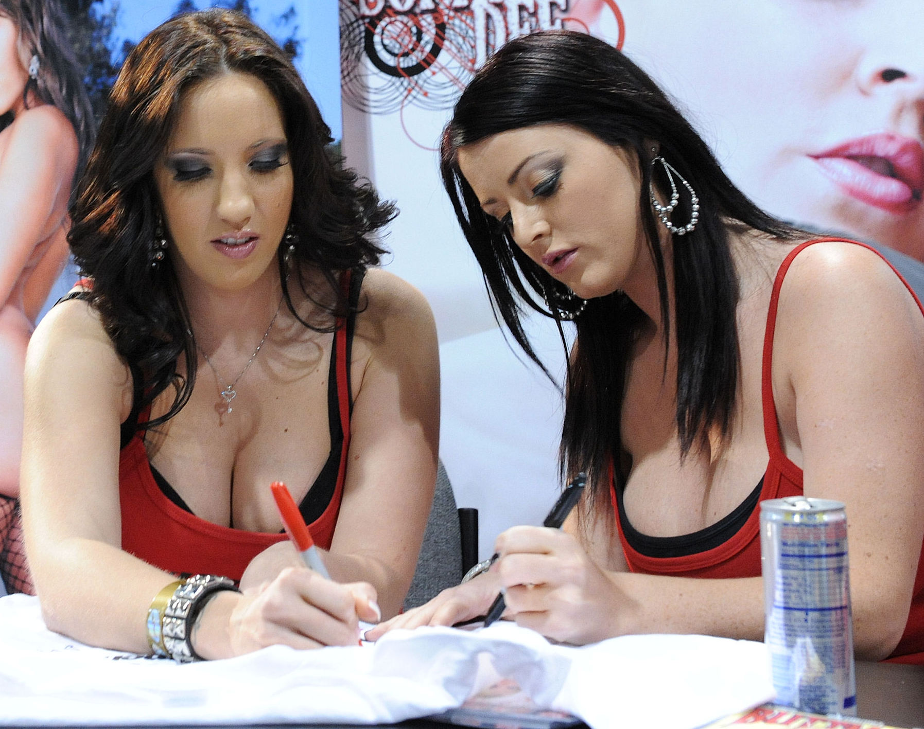 Kelly Divine and Sophie Dee at AVN Adult Entertainment Expo 2011